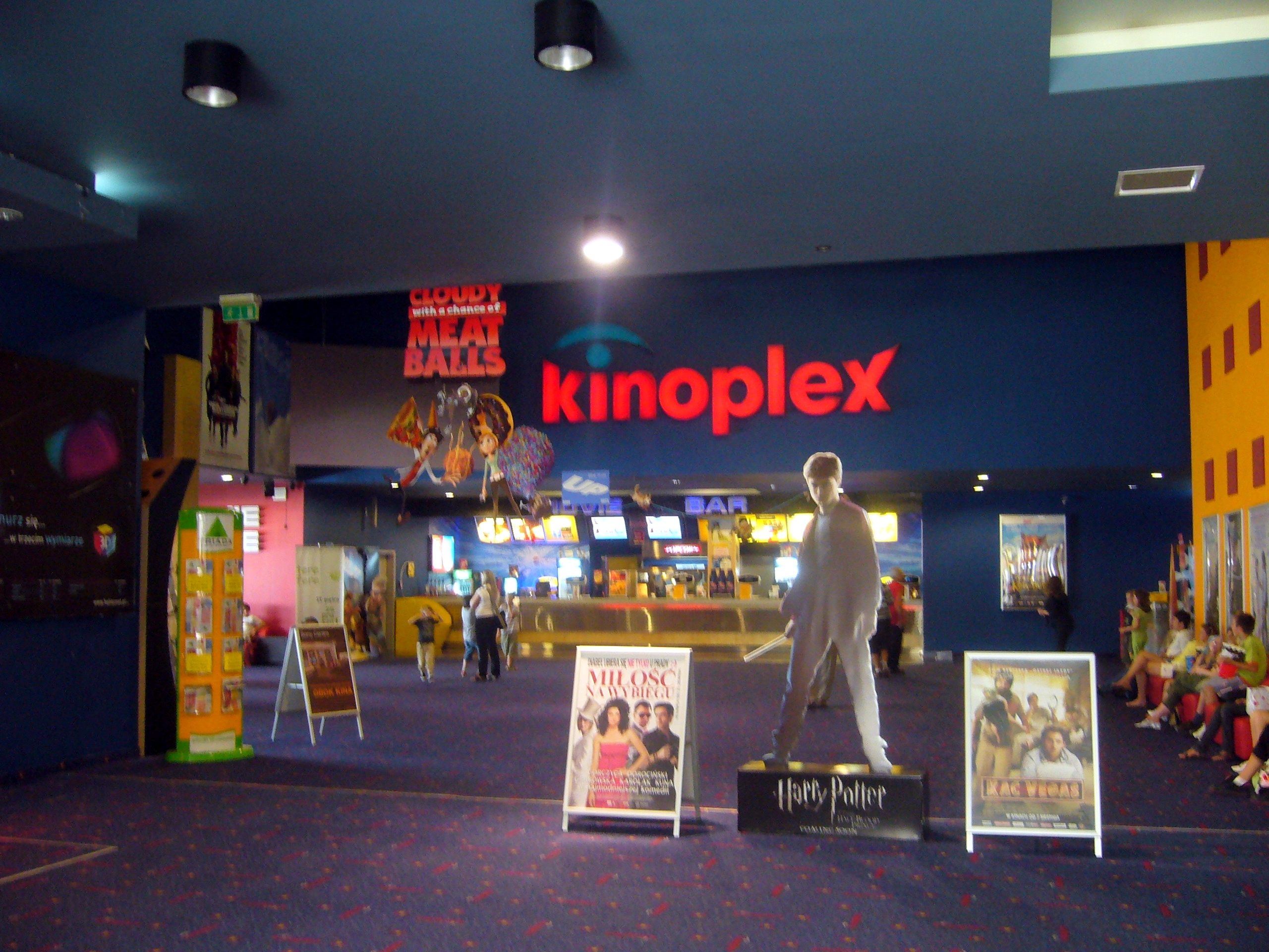 Bielsko-Biała, Poland. Cinema Kinoplex in shopping mall Galeria Sfera.